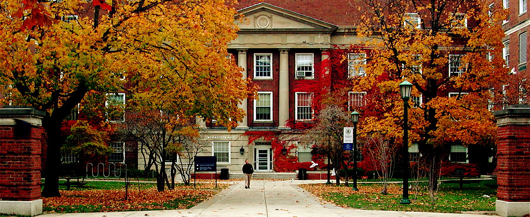 Crazyale took this picture on 11/5/06 Syracuse University